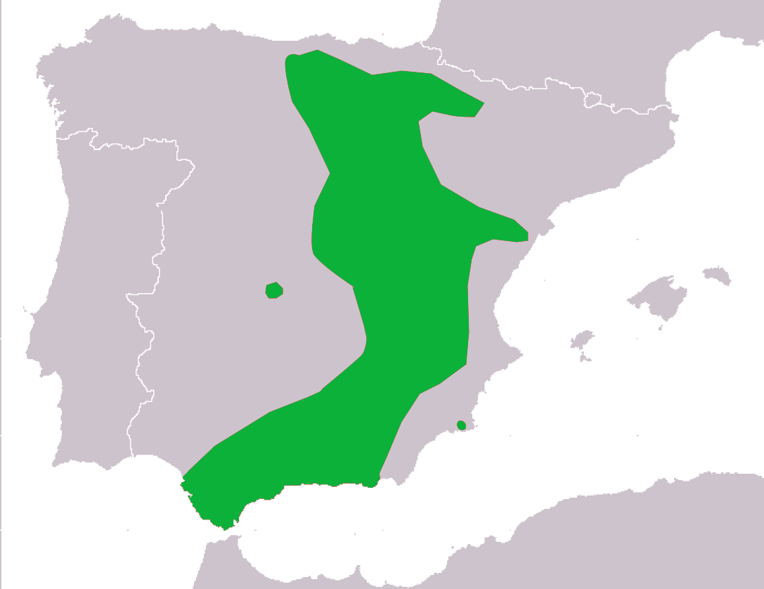 Discoglossus jeanneae distribution map.